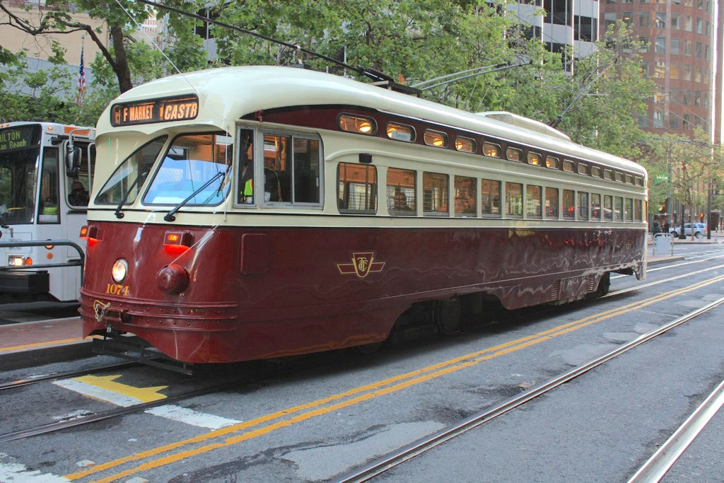 San Francisco Municipal Railway #1074, an ex-Newark PCC streetcar painted in honor of the Toronto streetcar system, is seen in service on the F-Market heritage line in 2012. This car was originally built for the Twin City Rapid Transit Co., in Minneapolis, in 1946, where was it No. 321. It was sold to Newark in 1954, becoming car No. 2 in the fleet of Public Service Coordinated Transport. It was retired by New Jersey Transit in 2001 and acquired by Muni in 2004. Creative Commons license – use as you like with attribution.